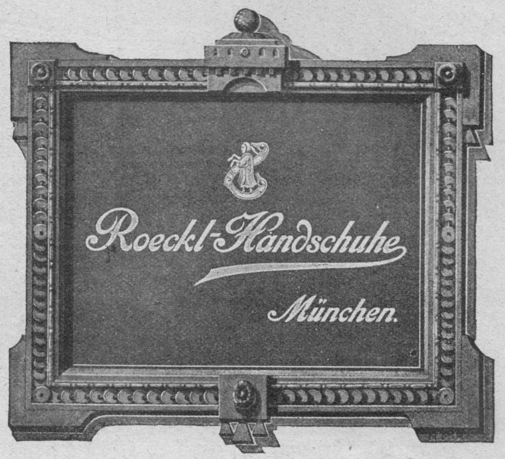 Roeckl Handschuhe München